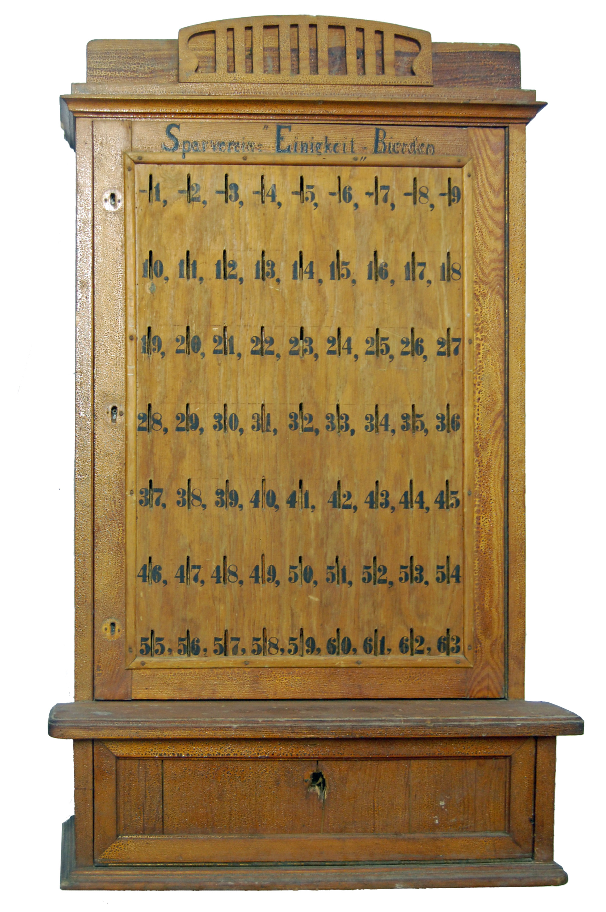 Moneybox, Christmasclub "Einigkeit Bierden", Lower Saxonia, 1930s